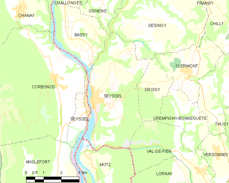 Map of French municipality Seyssel